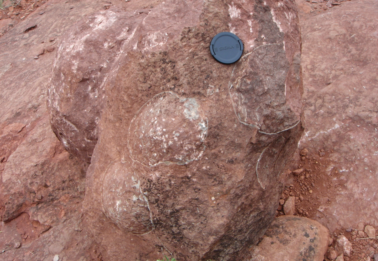 Photo of an indeterminate dinosaur eggs in the Tremp Formation. courtesy: M. Wiemer